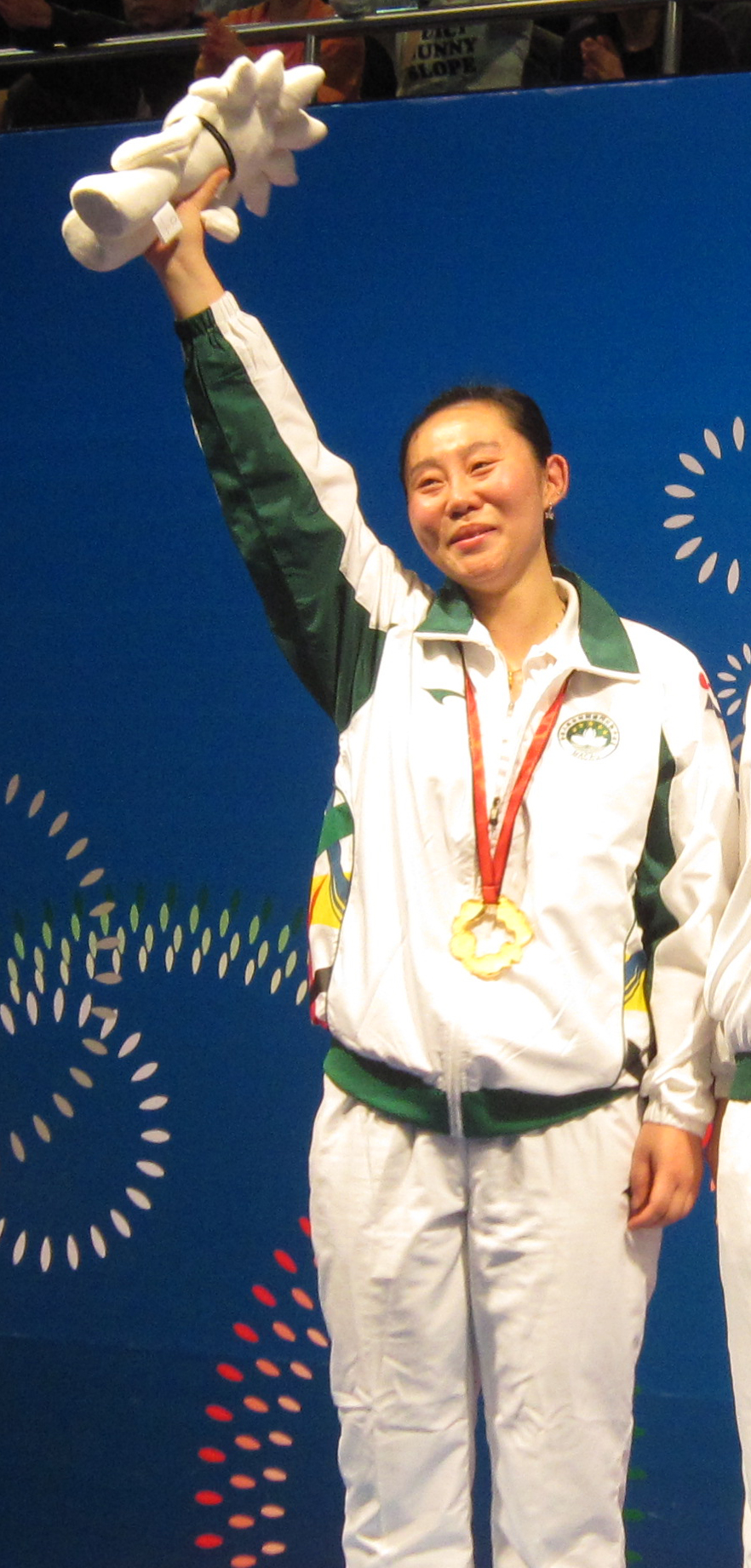 ZHANG Zhibo @ Hong Kong East Asian Games